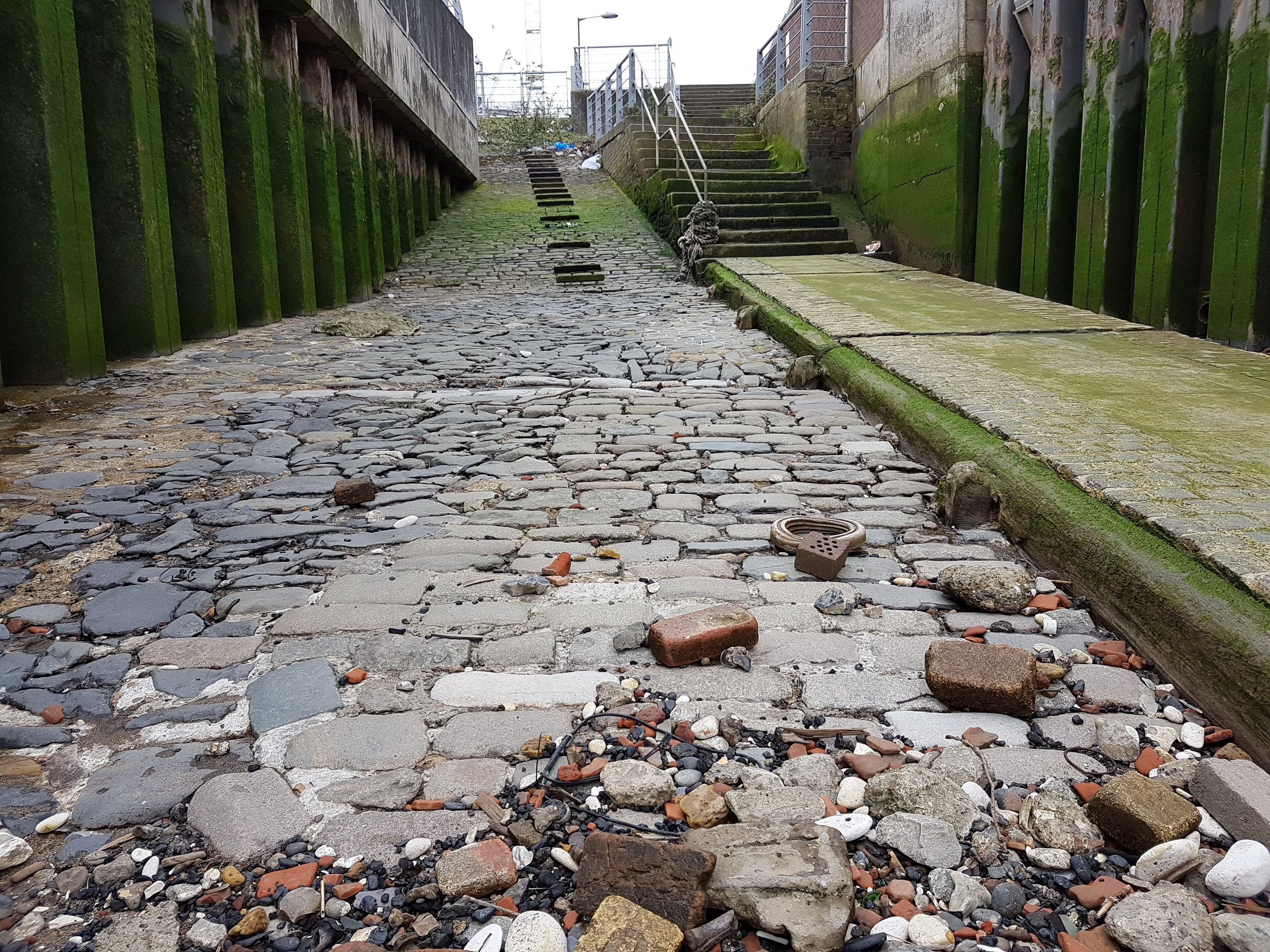 View from the north of so-called watermen's stairs at the end of Bell Water Gate in Woolwich, South East London, UK. Central Woolwich had five river stairs in the mid-18th century but Bell Water Gate was the main landing point for boats in and out of the town, due to its central location between Woolwich Dockyard, the Ropeyard and the Warren (later Royal Arsenal), and its proximity to the High Street. Most parts date from a reconstruction of 1824.